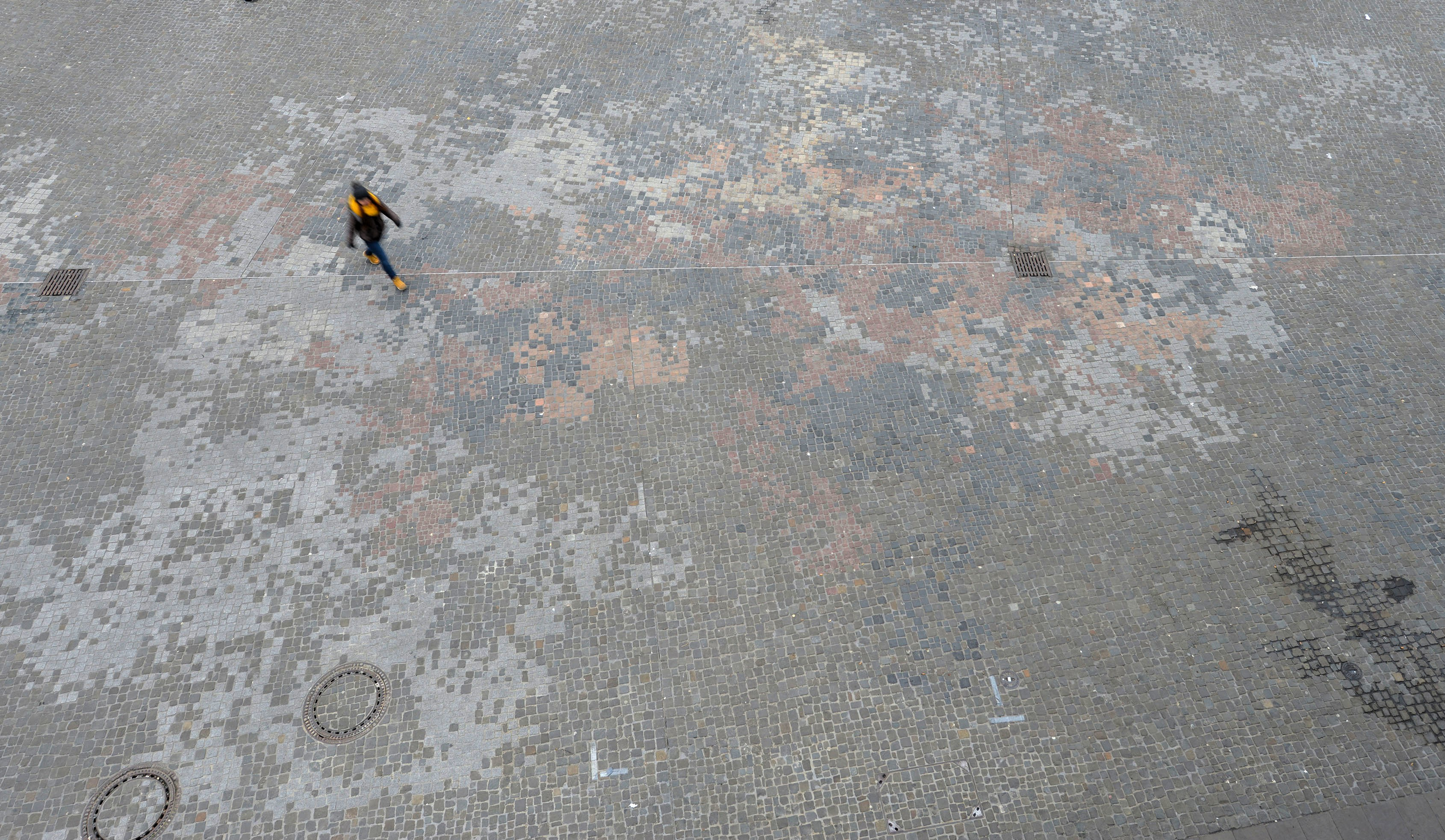 Meinstein public artwork in Berlin